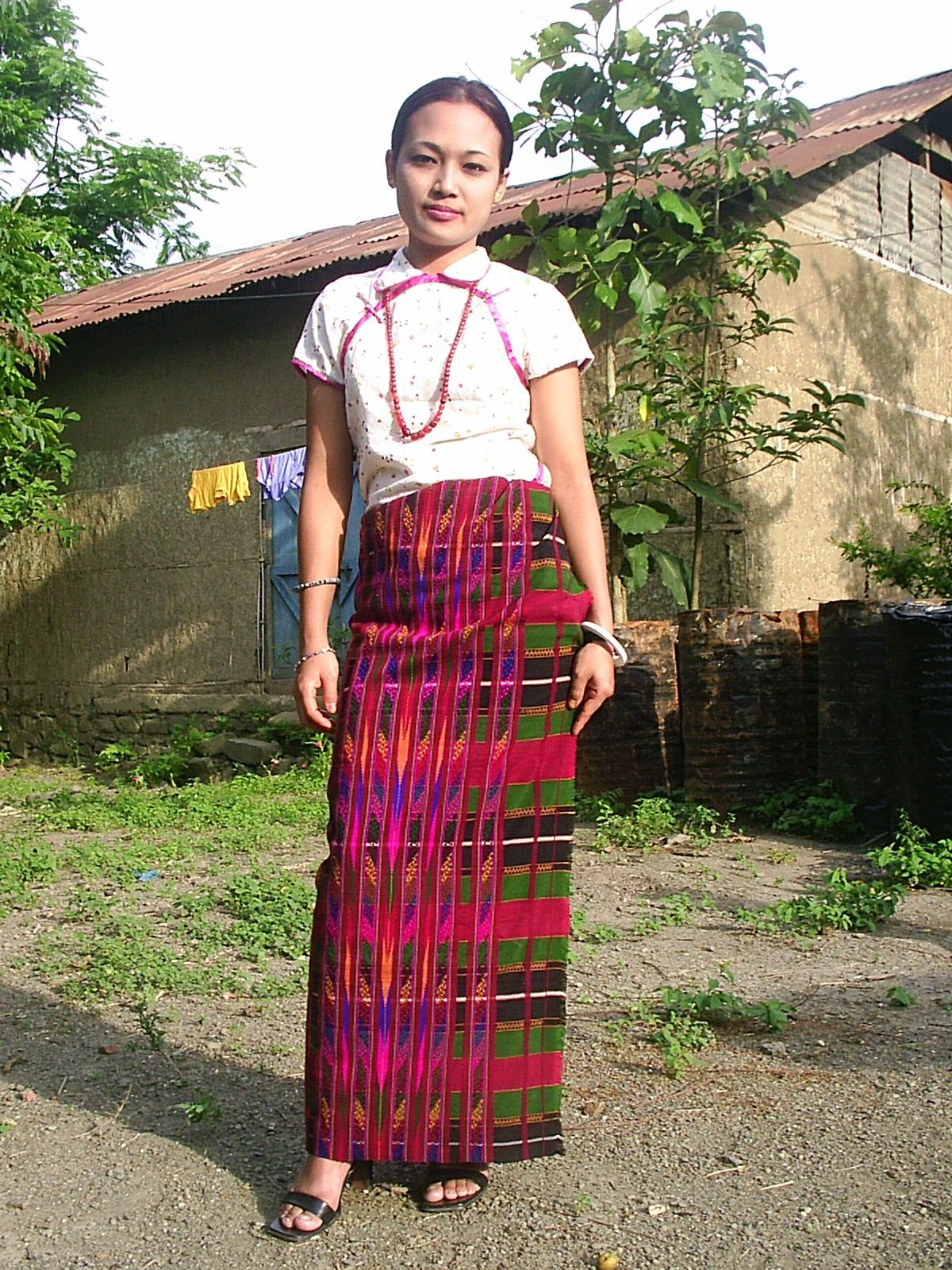 A Zou girl in traditional dress with a mud and straw house in the background (Photographer Khup Tungnung 2005)